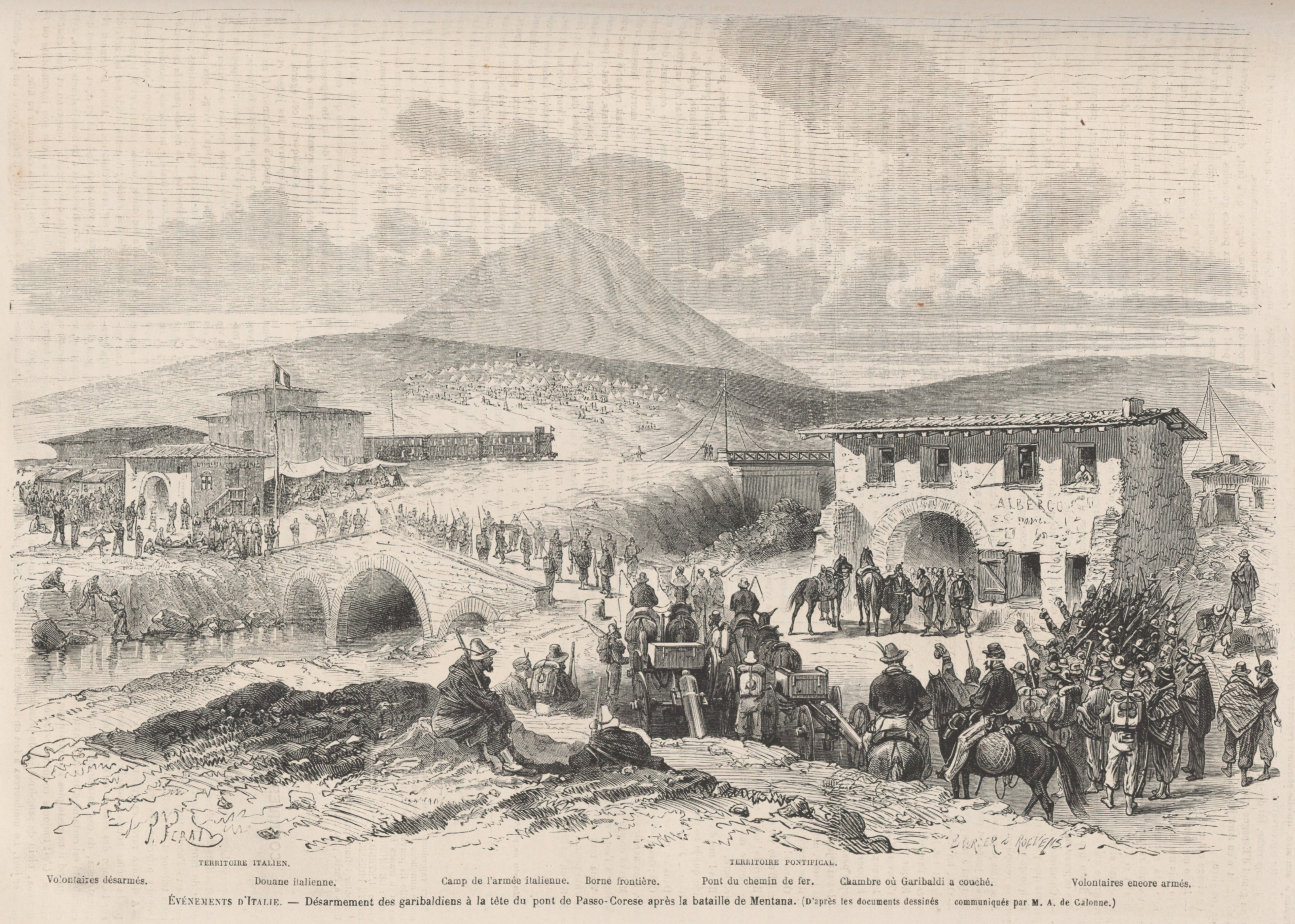 Giuseppe Garibaldi and his troops crossing a bridge near the Passo Corese train station (modern day Fara Sabina-Montelibretti station, the building on the left) after the battle of Mentana